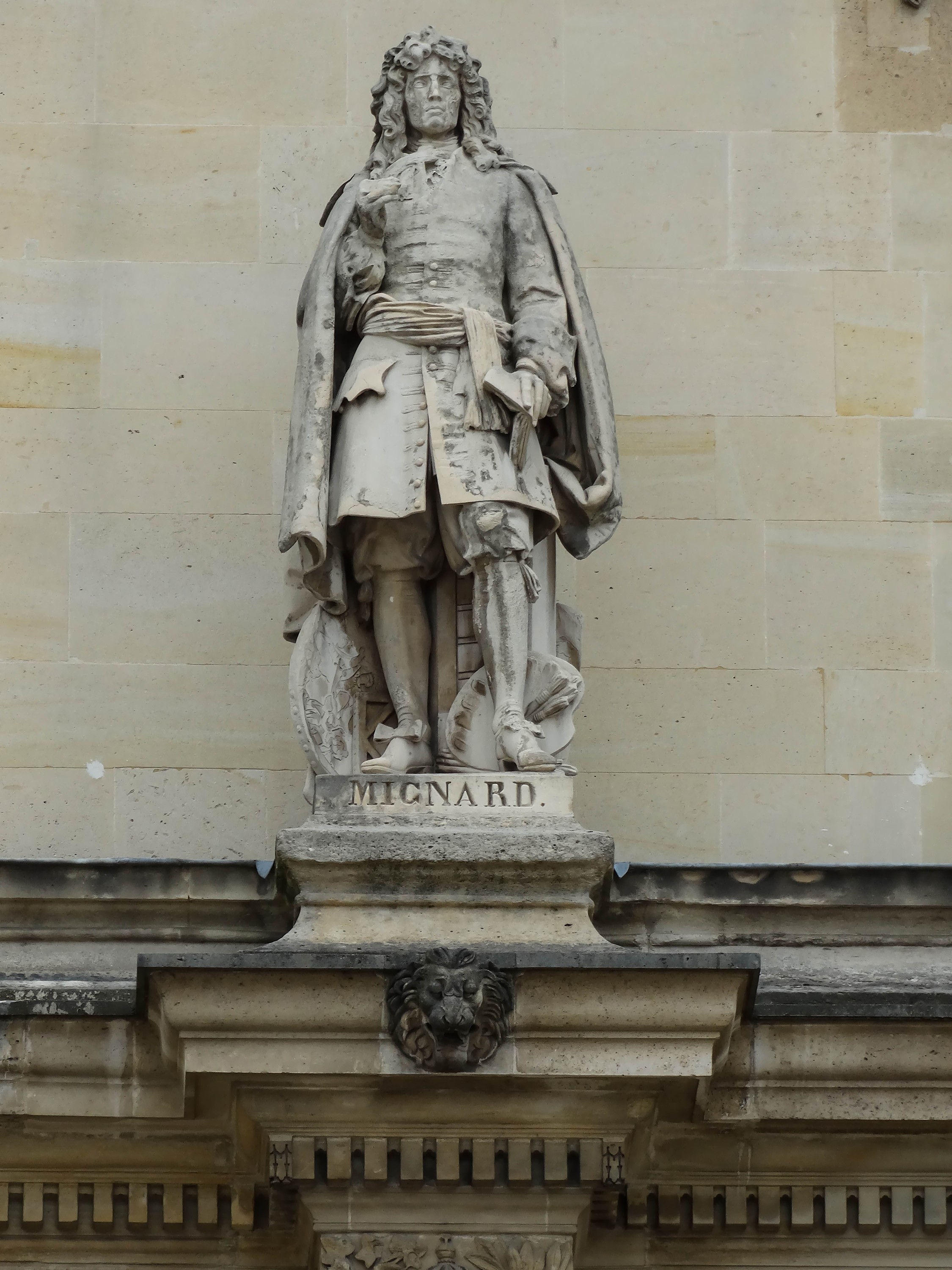 A statue of the artist Pierre Mignard, also known as Le Romain, created by Jean-Baptiste Joseph Debay on the Aile Henri IV of the Louvre.